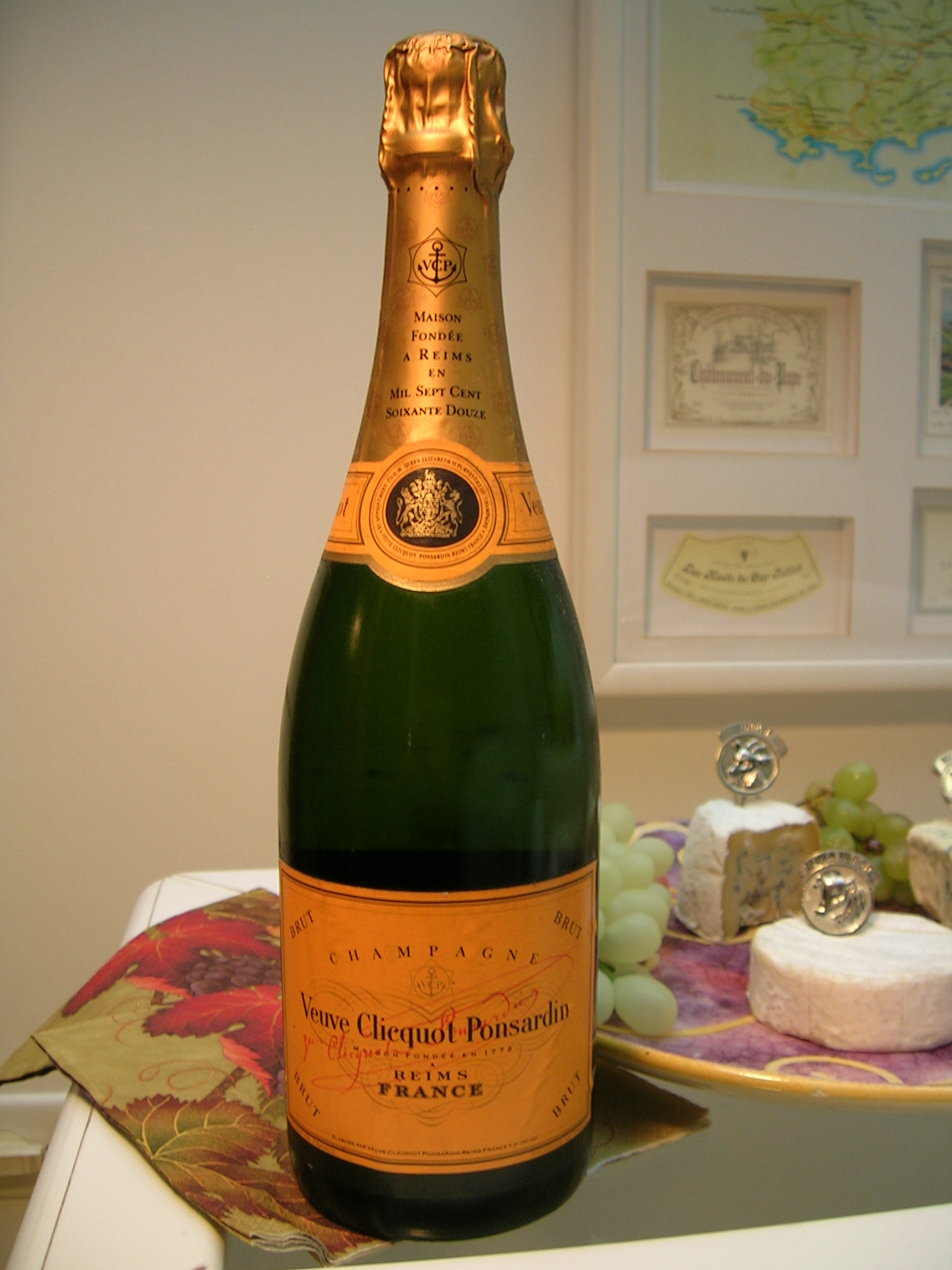 Veuve Clicquot bottle - Champagne - France